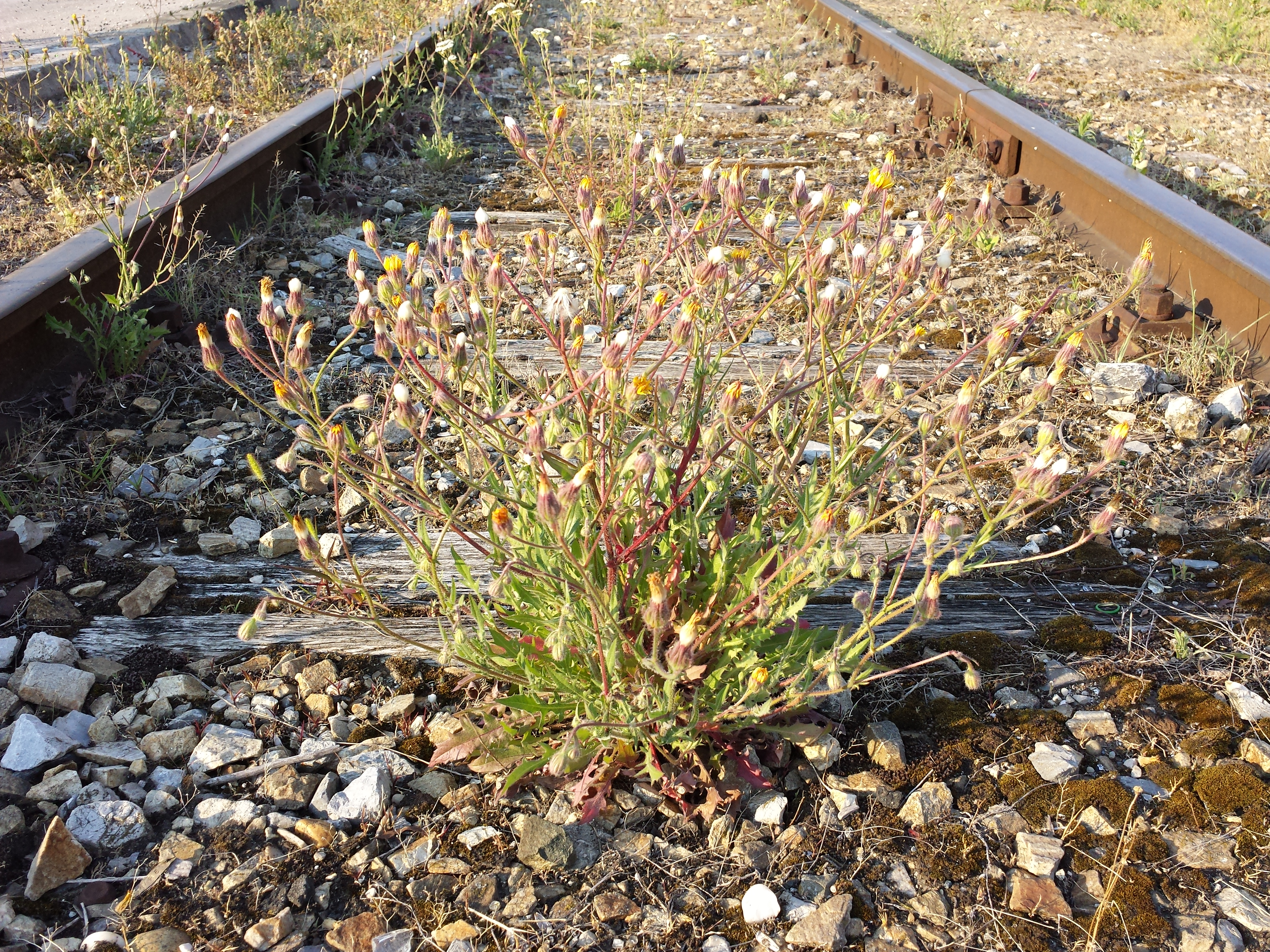 Habitus Taxon: Crepis foetida subsp. rhoeadifolia (sensu Fischer et al. EfÖLS 2008) Location: station Floridsdorf towards Leopoldau, Vienna-Floridsdorf - ca. 170 m a.s.l. Habitat: ballast